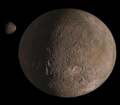 Quaoar and its small moon Weywot. This image tries to show the moderately red color of Quaoar (B-V=0.94, V-R=0.64), as seen in an approximately true color scheme. Quaoar is estimated to have an equatorial diameter of 1138 km, with an oblateness of 0.897. Estimates as of 2019 have shown that Weywot is larger (170 km) than previously thought (85 km), implying a lower albedo than Quaoar.